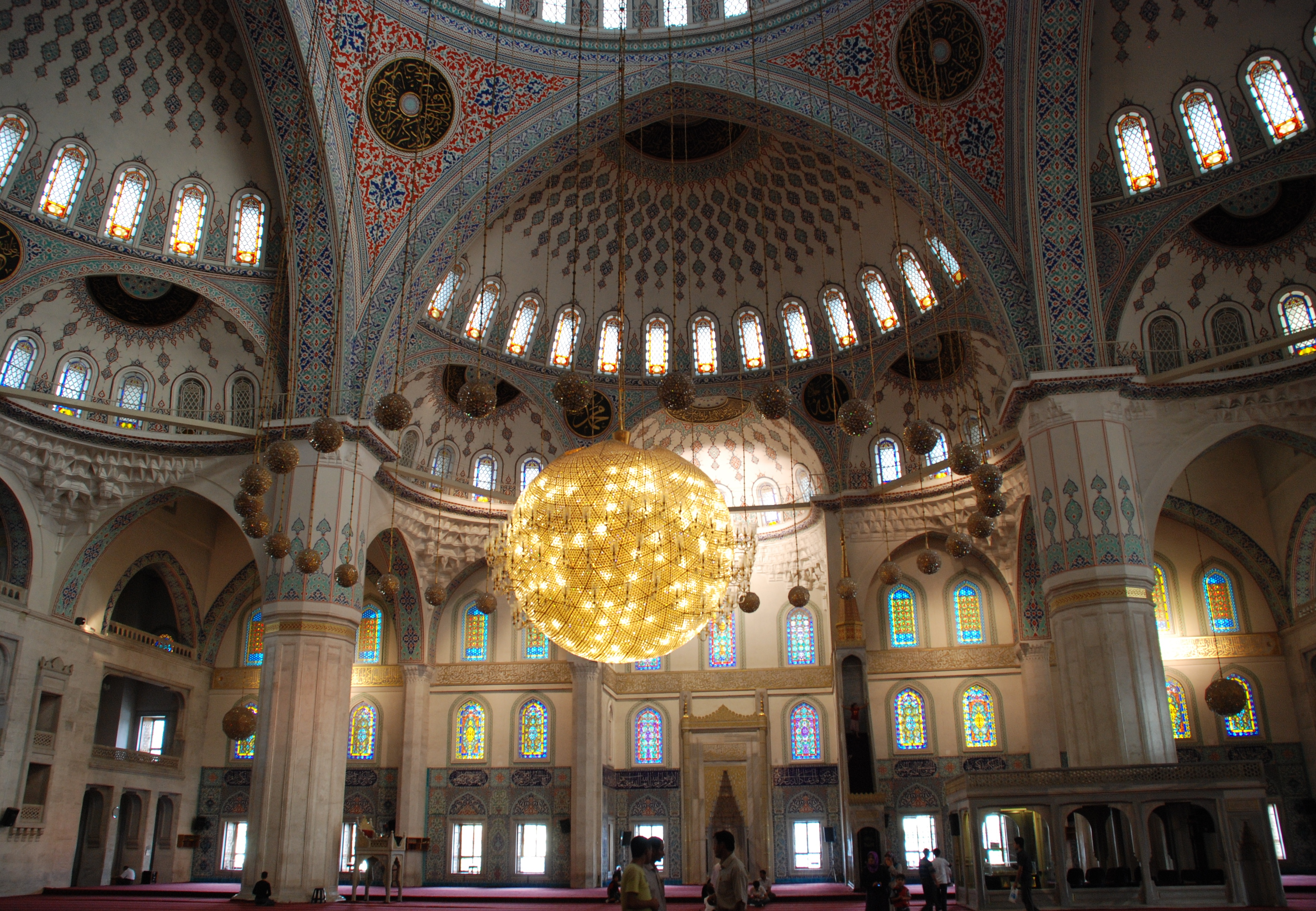 Inside Kocatepe Camii